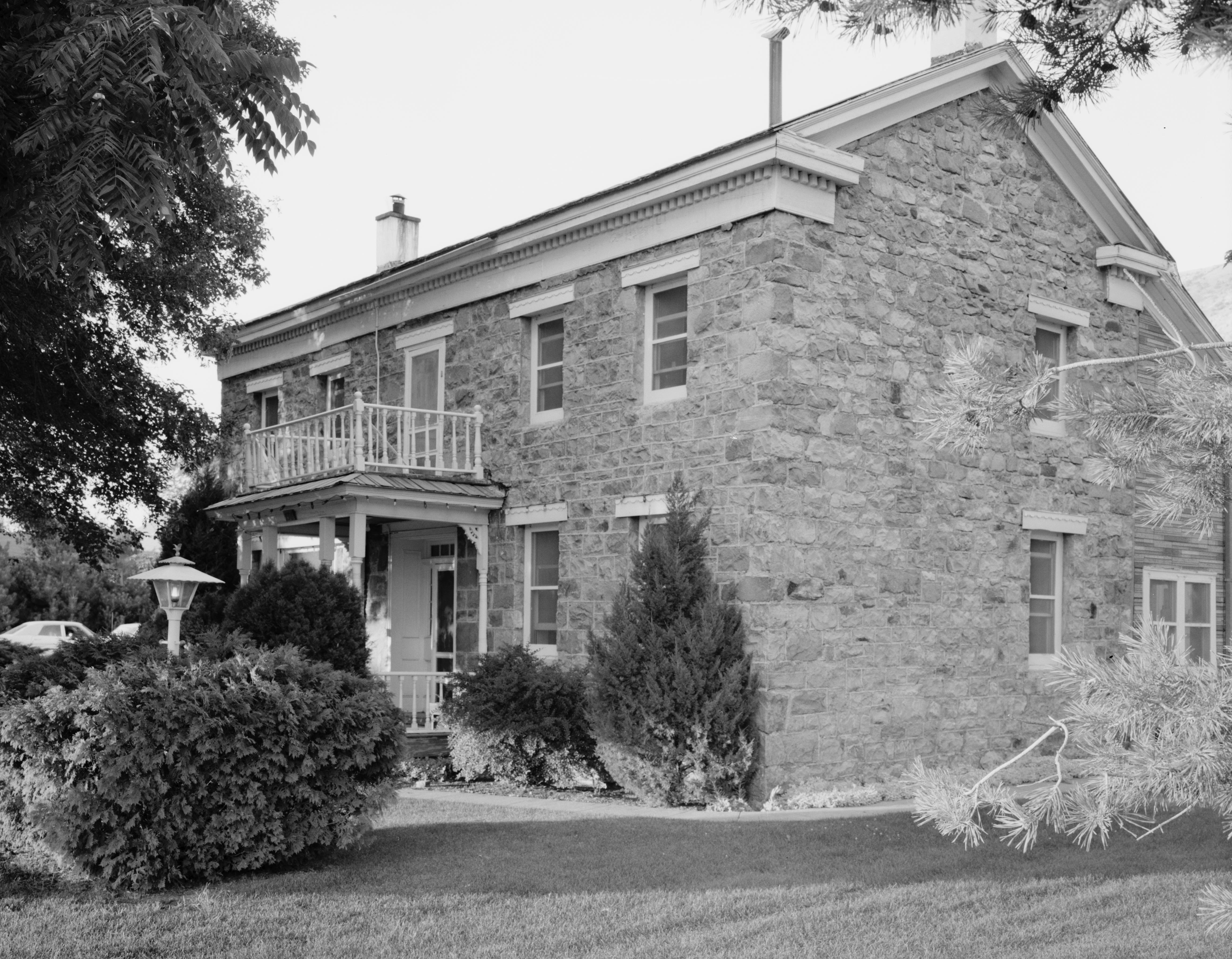 Front of the George Mason House, located 150 N. 200 West in Willard, Utah, United States. Built in 1865, it is part of the Willard Historic District, which is listed on the National Register of Historic Places.